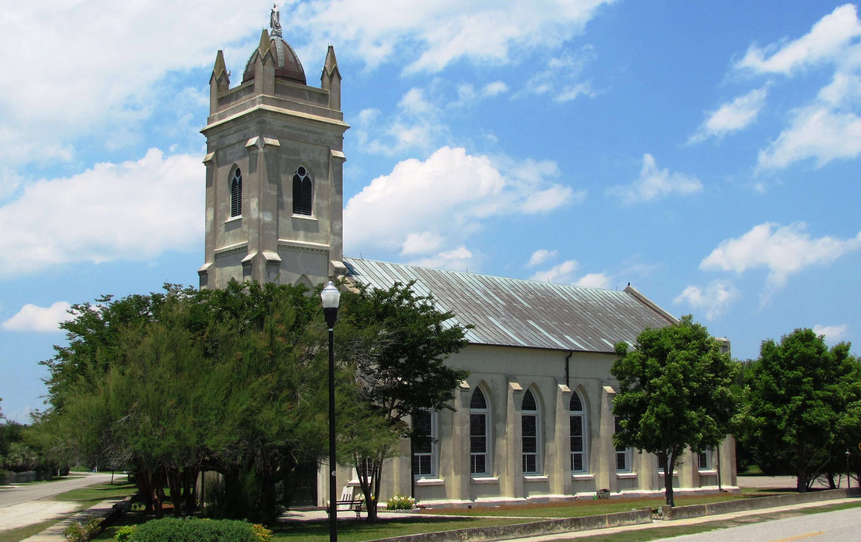 The Stella Maris Catholic Church (1204 Middle St.) on Sullivan's Island in Charleston County, South Carolina, USA. Constructed in the late-19th century, the church is now part of the NRHP-listed Moultrieville Historic District.